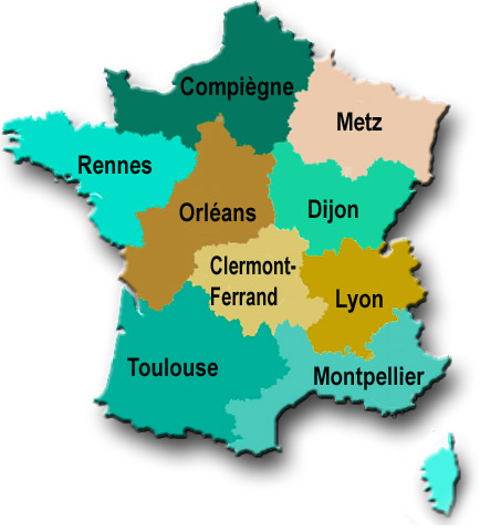 map of ONEMA's interregional delegations in France